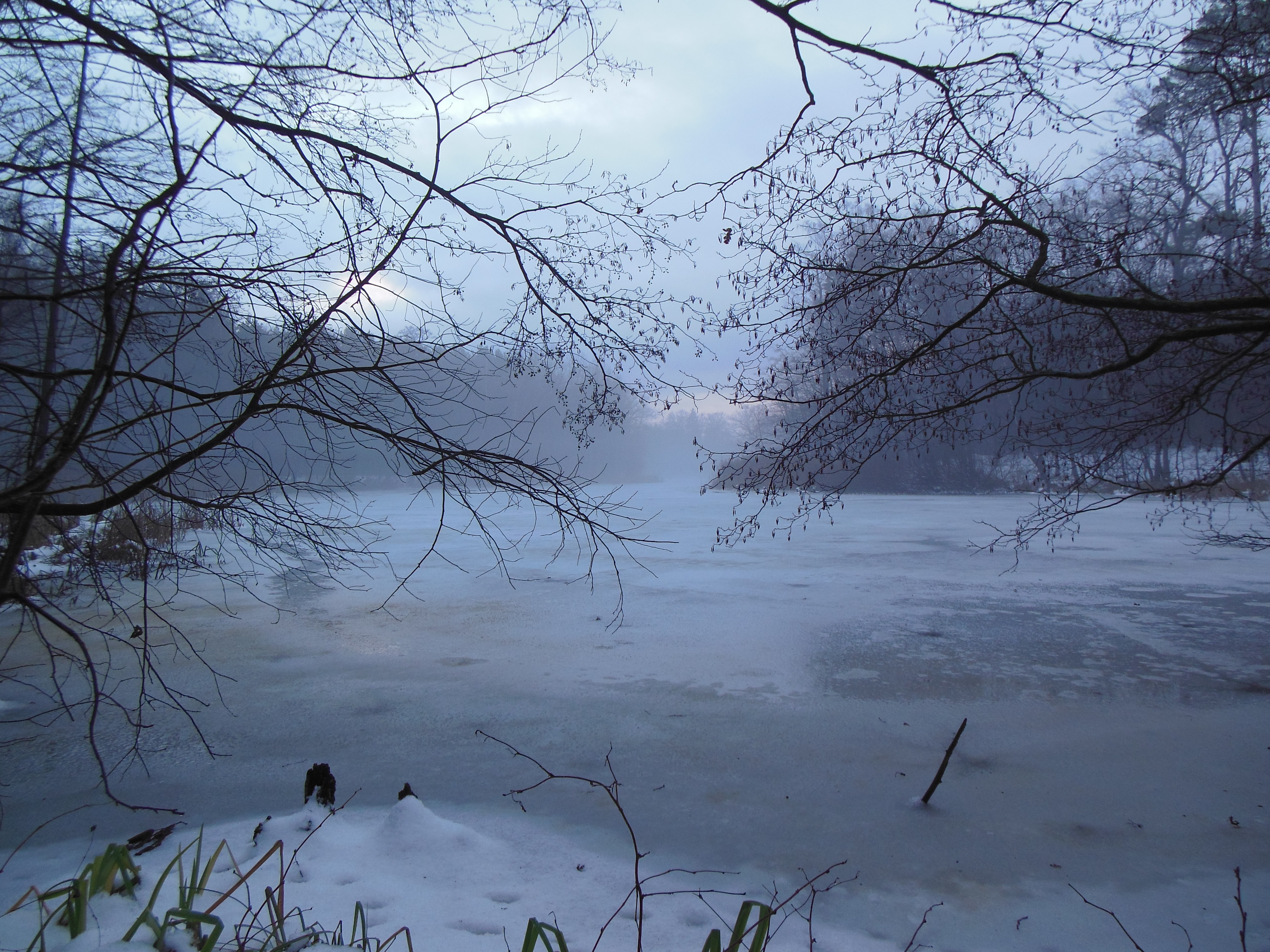 European reserve "Glasowbachniederung" (brook lowlands of creek of Glasow) at Lake Selchow nearby Schönefeld Airport